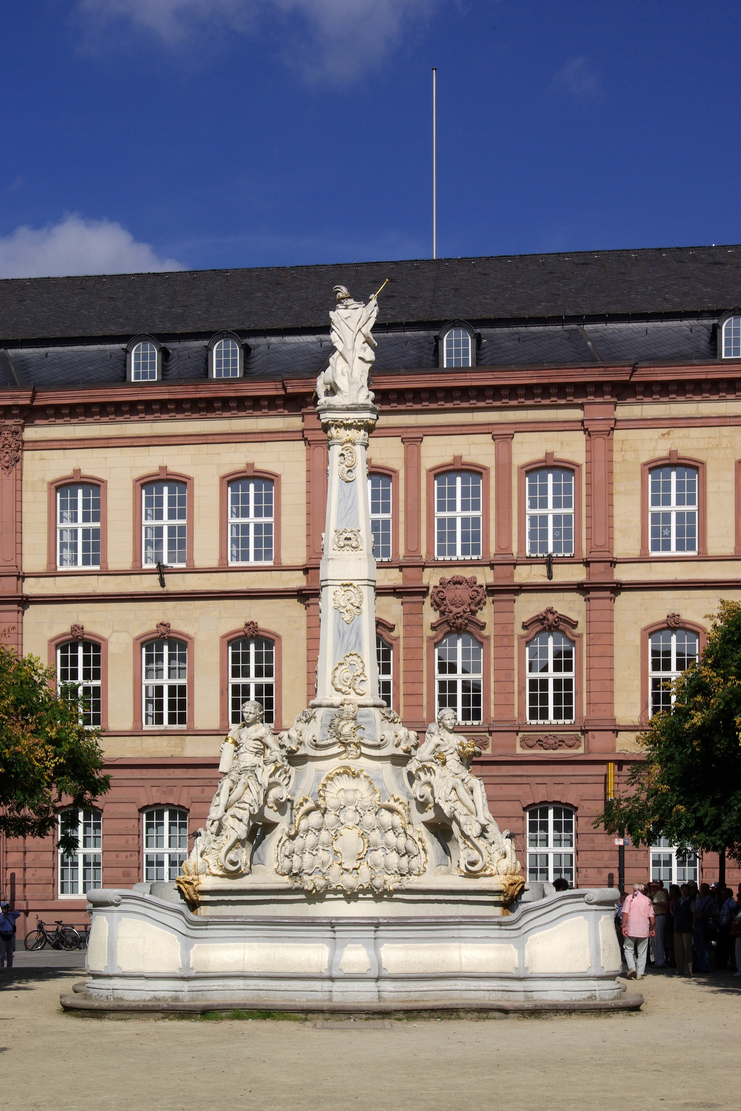 Trier, St. George's Fountain in the Corn Market. Rococo fountain with depiction of the Four Seasons, and St. George killing the dragon on top of an obelisk.